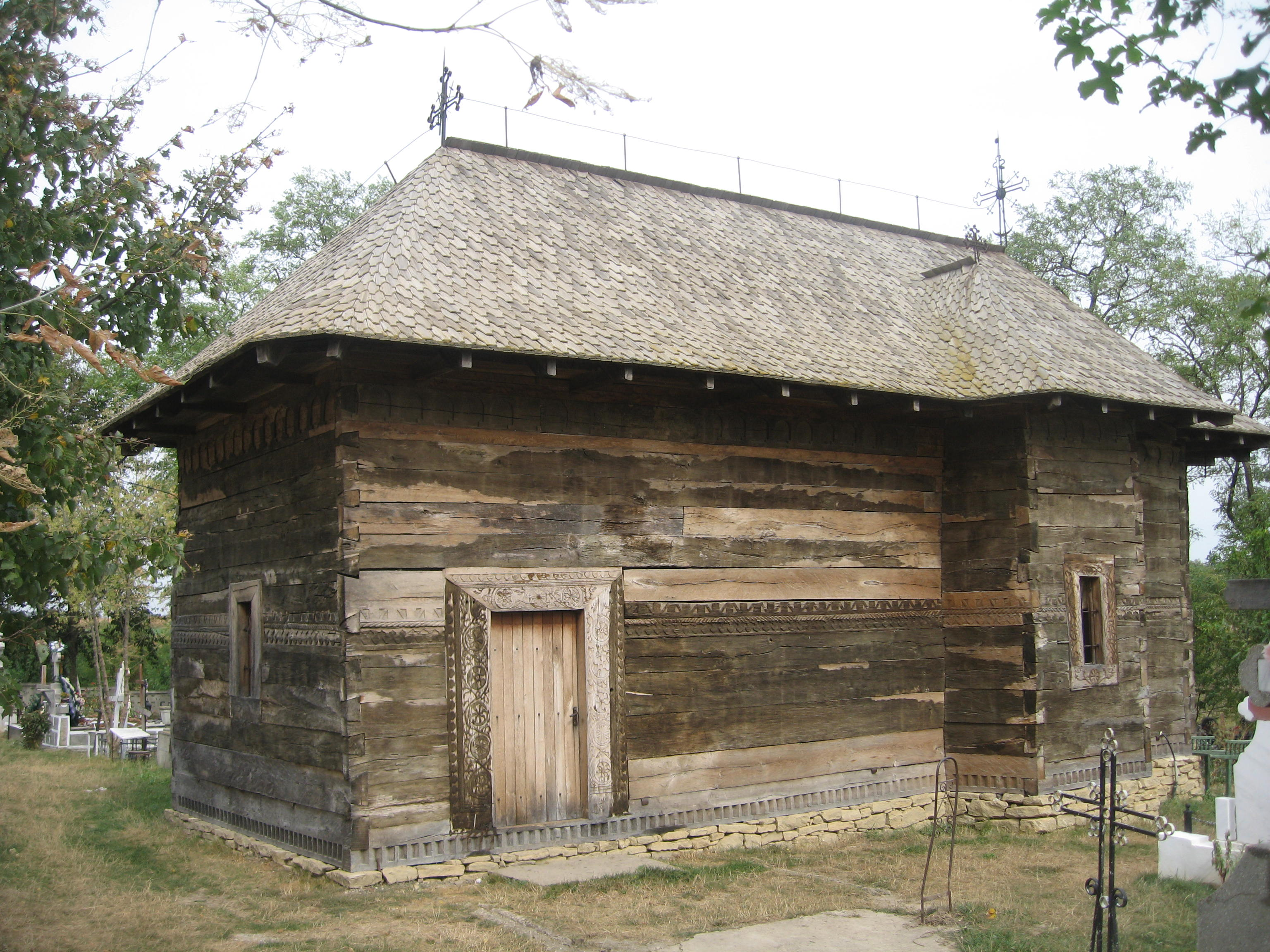 Biserica de lemn din Stolniceni-Prăjescu